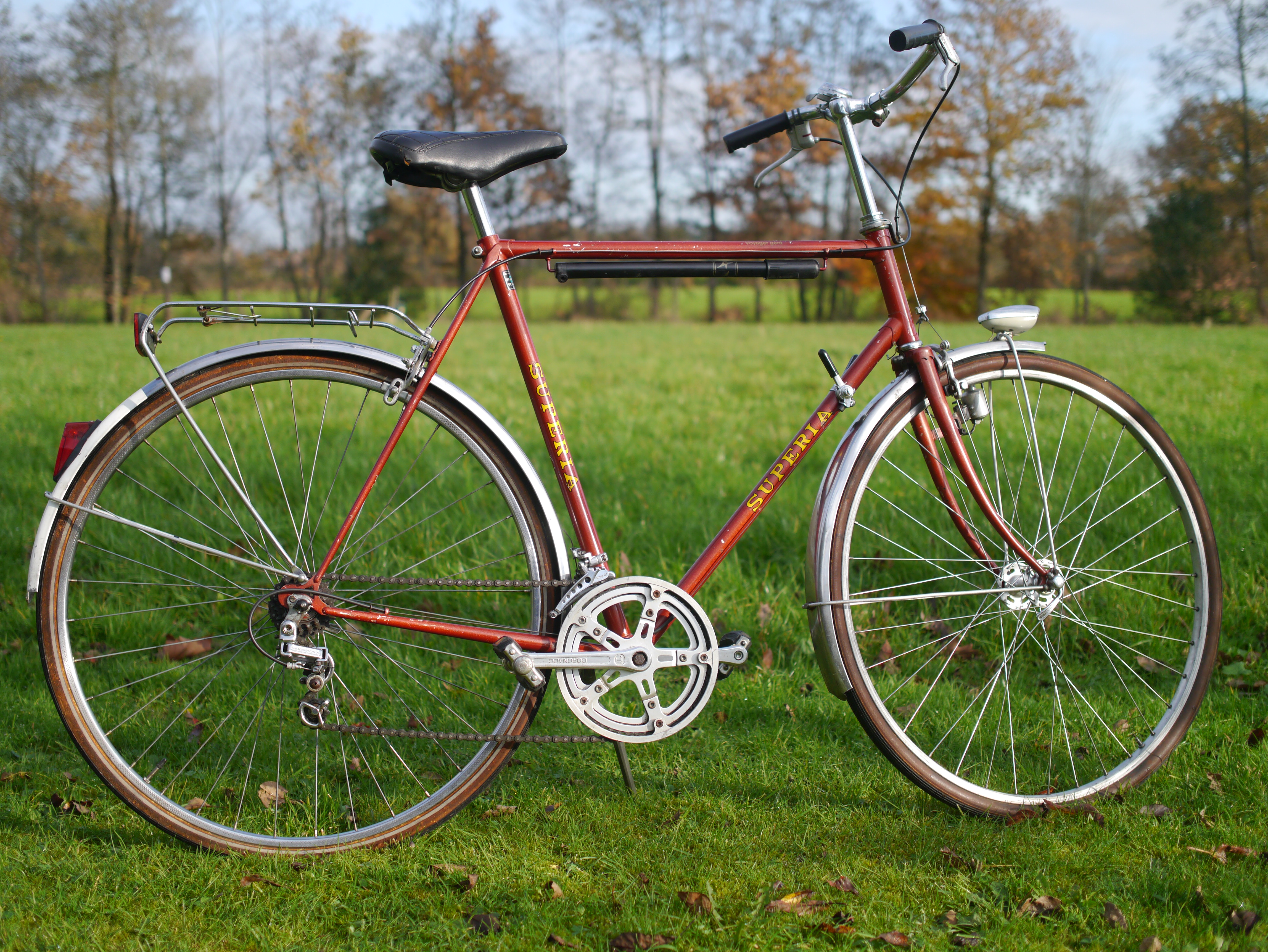 Superia Voyager Gent Bicycle